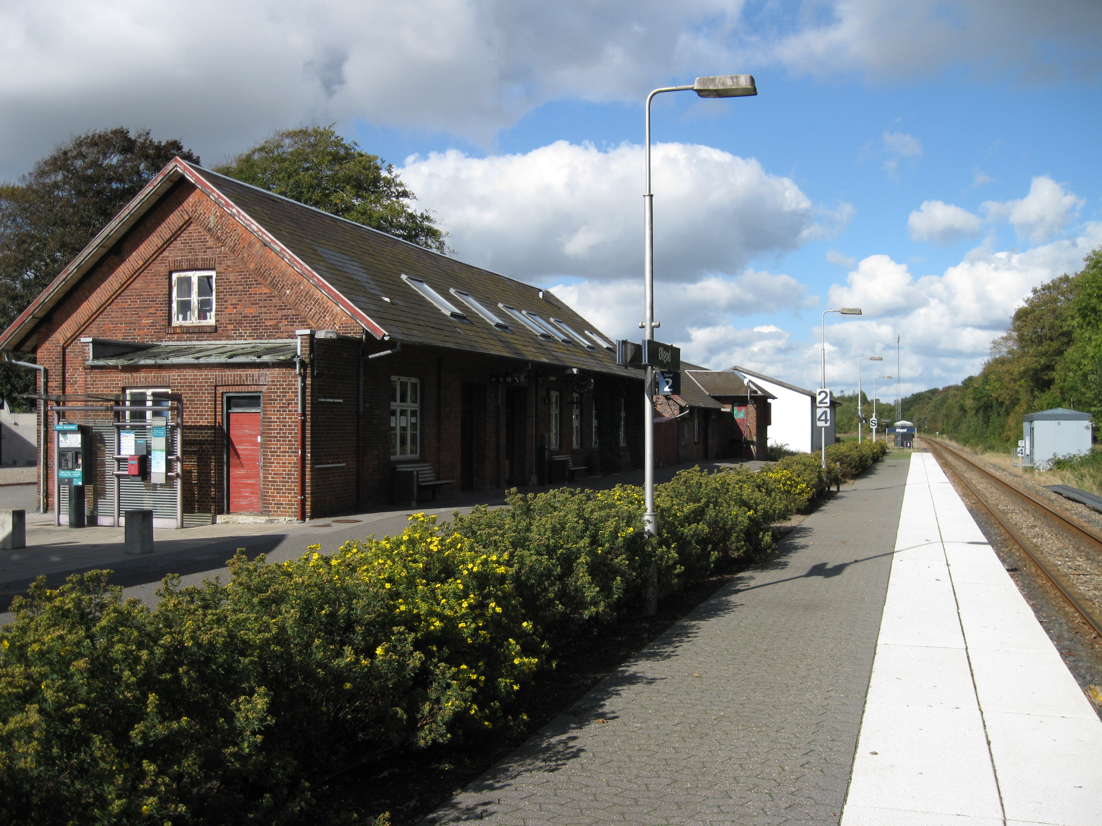 Ølgod Station, Denmark